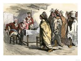 Ottawa chief Pontiac visits Major Henry Gladwin, commanding Fort Detroit, planning to kill him and start a massacre of the English. Gladwin, fore-warned, dismisses him. Engraving by W.L.J. in Cassell's History of the World